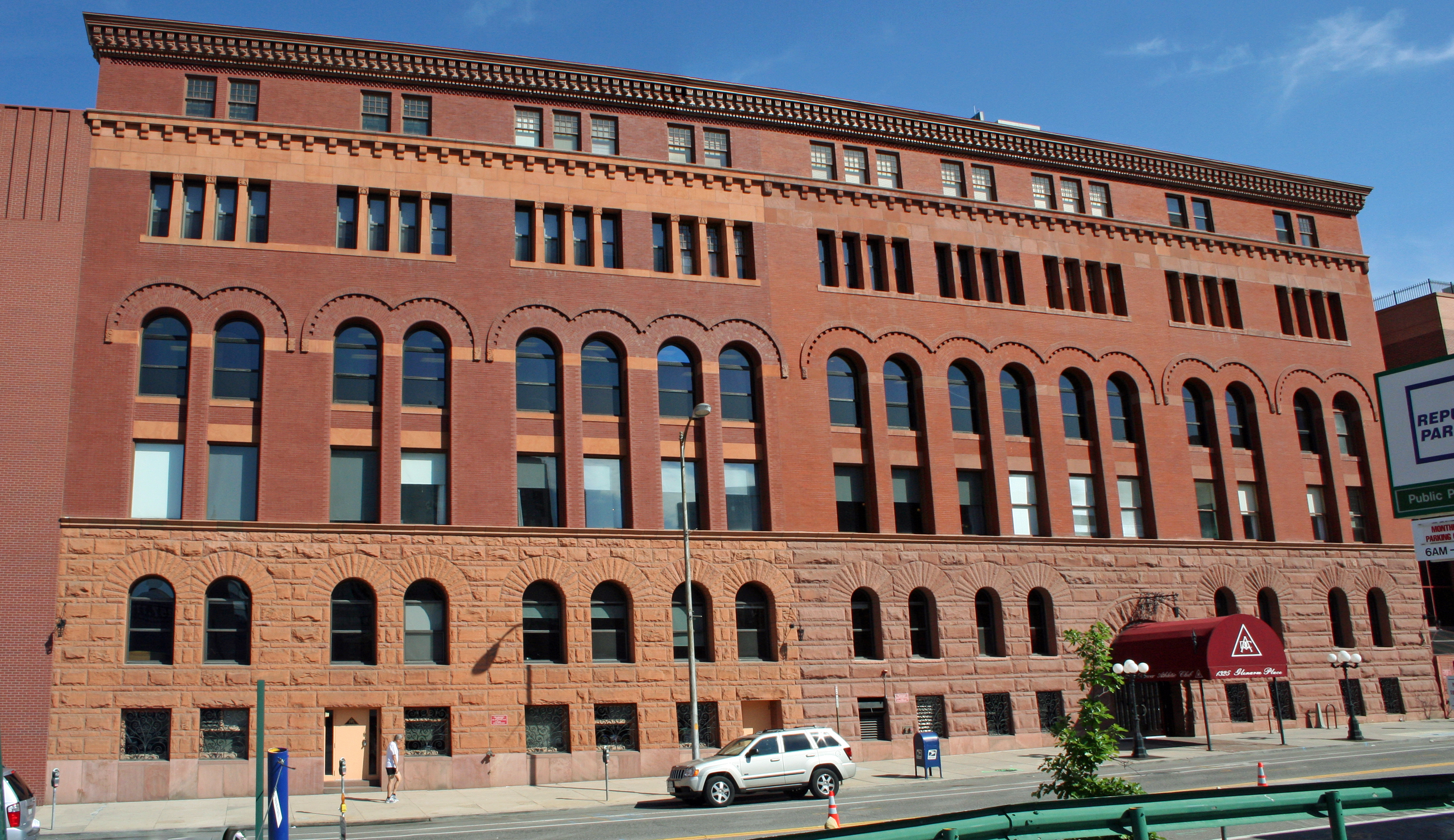 The Denver Athletic Club Building at 1325 Glenarm Place in Denver, Colorado, home to the Denver Athletic Club